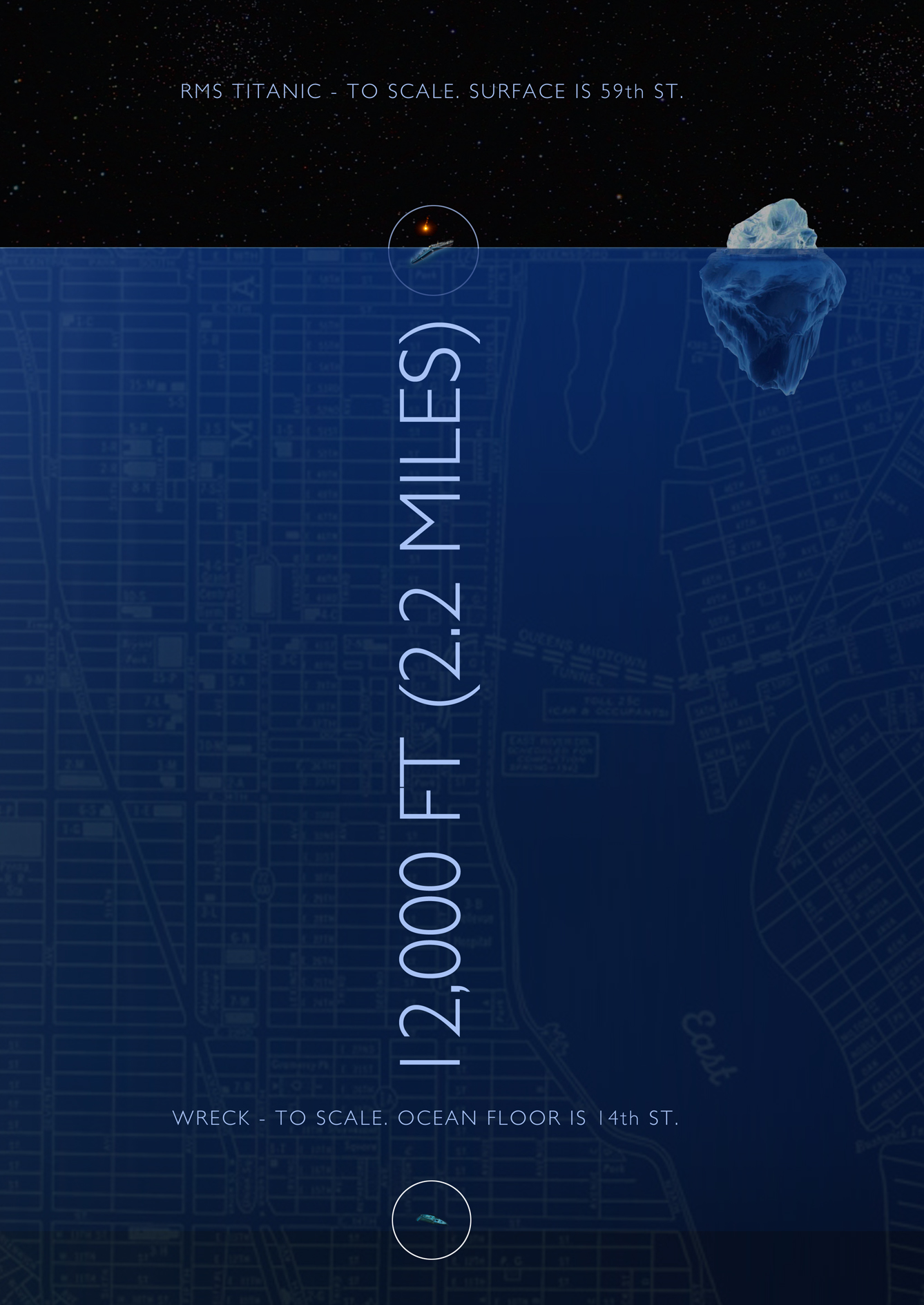 This image demonstrates the actual depth of the RMS Titanic wreck by contrasting it with a section of lower Manhattan. Objects are to scale.